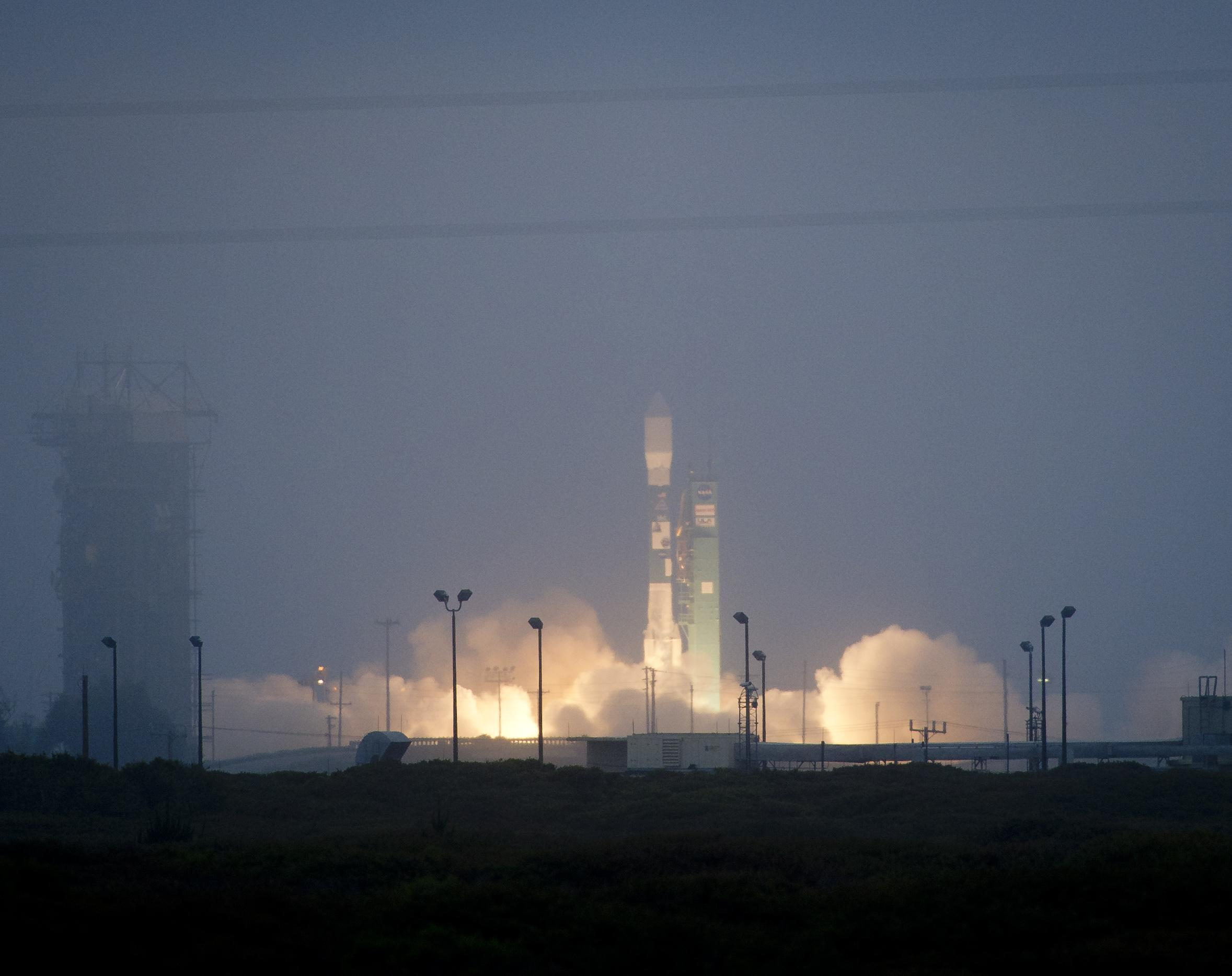 A Delta II rocket launches with the Aquarius/SAC-D spacecraft payload from Space Launch Complex 2 at Vandenberg Air Force Base, Calif. on Friday, June 10, 2011. The joint U.S./Argentinian Aquarius/Satélite de Aplicaciones Científicas (SAC)-D mission, set to launch June 10, will map the salinity at the ocean surface, information critical to improving our understanding of two major components of Earth's climate system: the water cycle and ocean circulation.